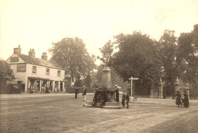 Dulwich village in the late 19th century, showing The French Horn Inn, previously called The Bricklayer's Arms